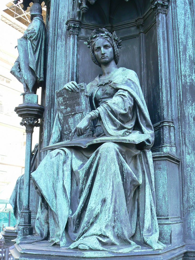 Personification of the Faculty of Law (decoration of the western face of the pedestal of the statue of Charles IV, Holy Roman Emperor; Křižovnické Square, Prague, Czechia)